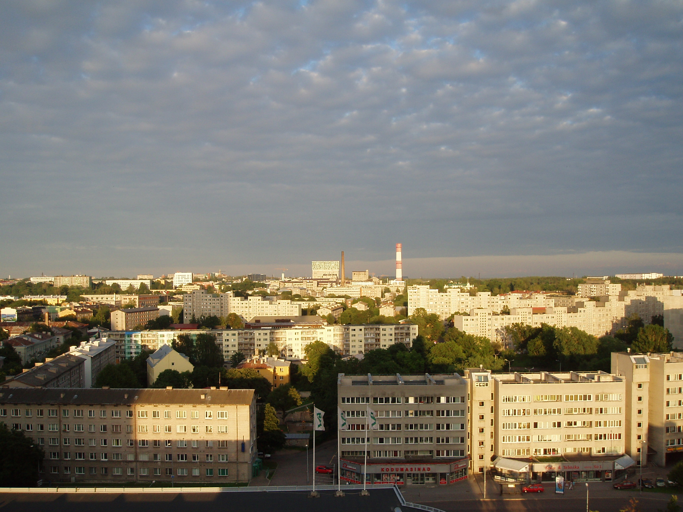 Keldrimäe, Kesklinn Tallinn 1 July 2007